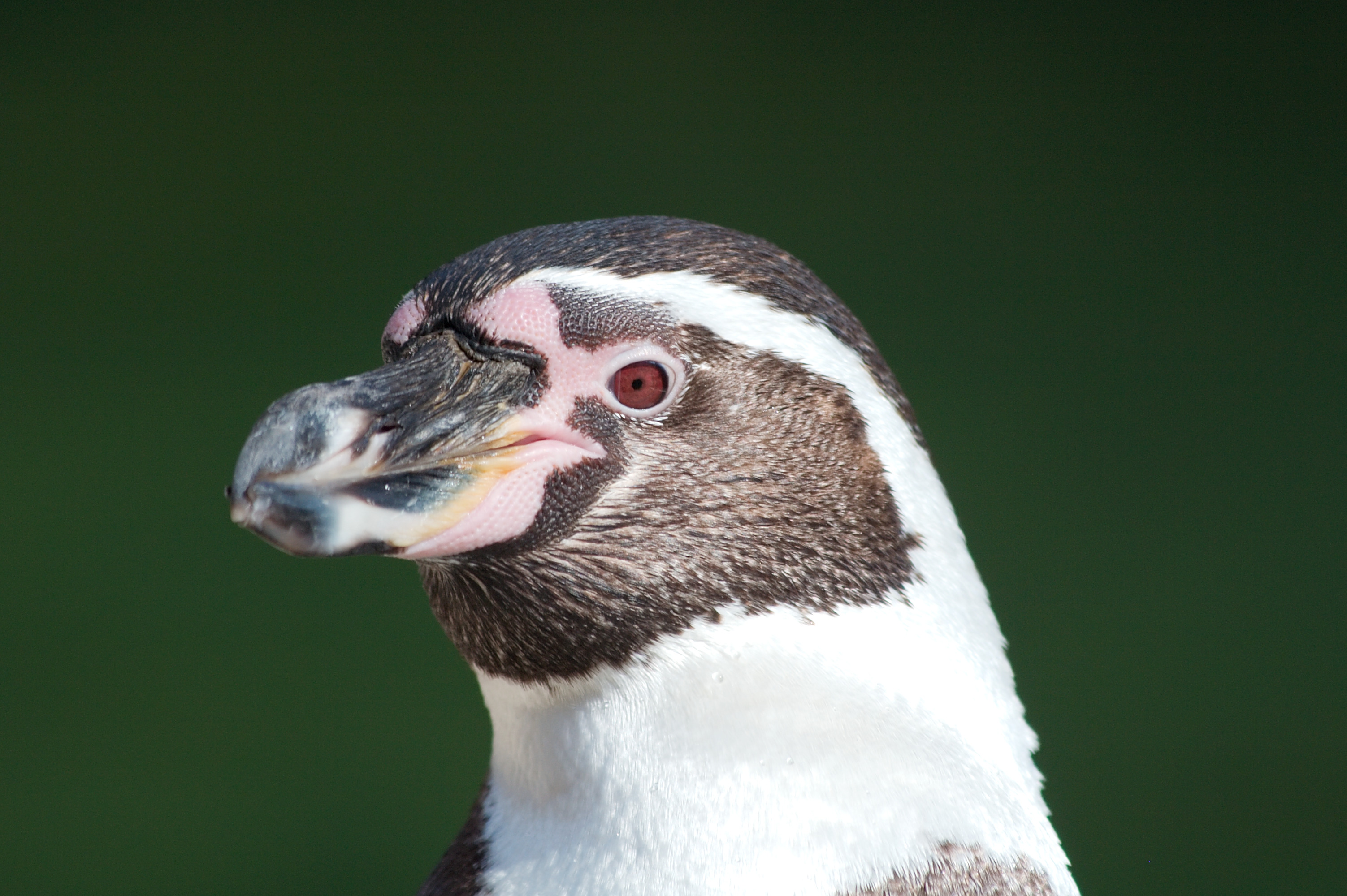 A Humboldt penguin (Spheniscus humboldti), taken at the Santa Barbara Zoo, California